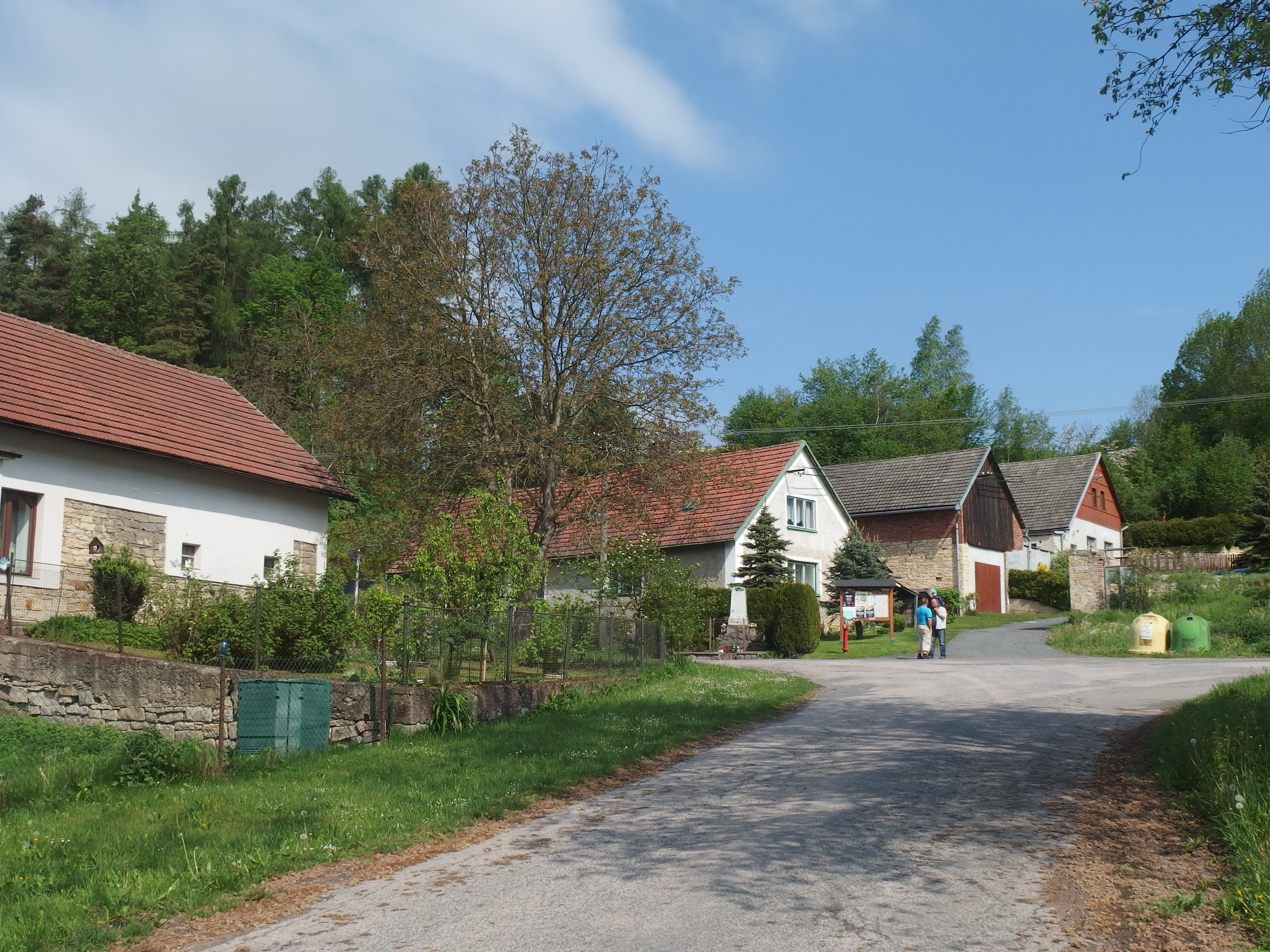 Libecina, Ústí nad Orlicí District, Czech Republic, part Javorníček.